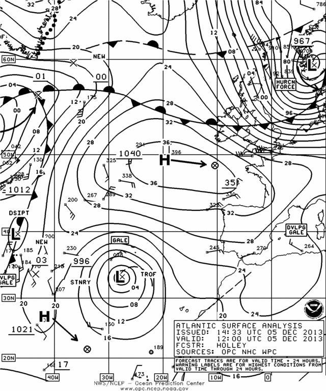 Surface weather map of Eastern Atlantic coast whem cyclone Bodil was passing in the North Sea on December 5th, 2013 at 12 UTC.